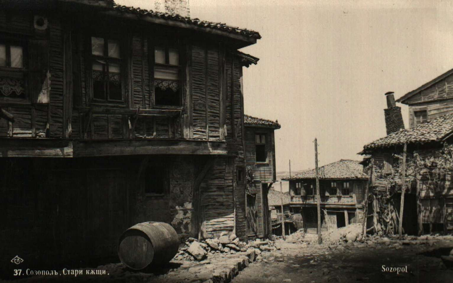 Sozopol, Bulgaria